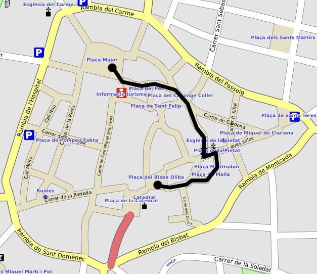 Path followed by the cameraman in the Lip dub for Catalonia Independence recorded in Vic on October 24, 2010 which made the world record in people participating on it. This map may be incomplete, and may contain errors. Don't rely solely on it for navigation.